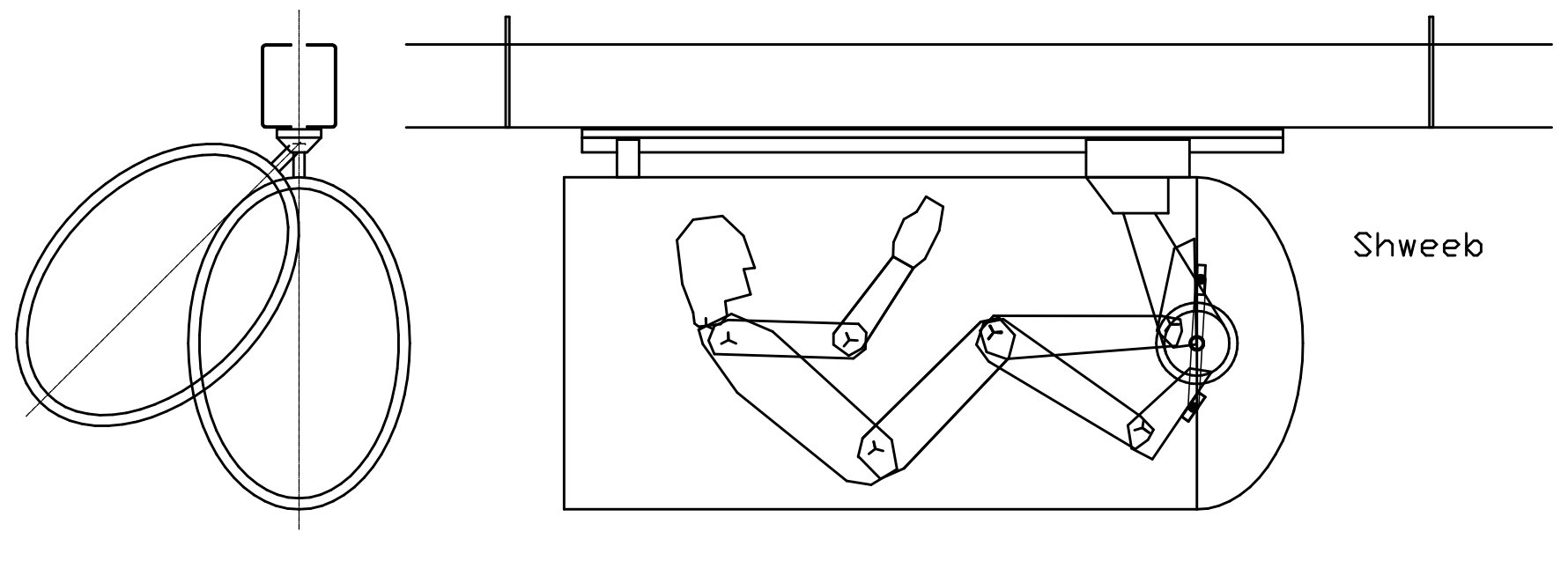 Drawing of the human power PRT transport Shweeb (done from photos and manufacturer public documentation)